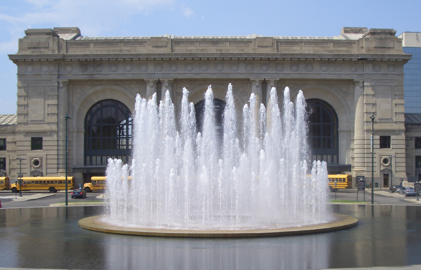 Henry Wollman Bloch Fountain, at Union Station, Kansas City, Missouri Fountain located in front of Union Station, on W. Pershing Road at Main Street, Kansas City, MO